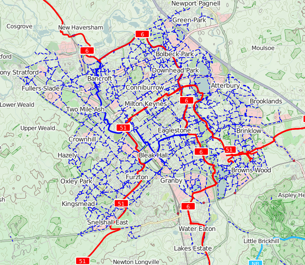 A map of the Milton Keynes Redway system, a network of (combined) segregated cycleways and footways. This map of Milton Keynes was created from OpenStreetMap project data, collected by the community. This map may be incomplete, and may contain errors. Don't rely solely on it for navigation.